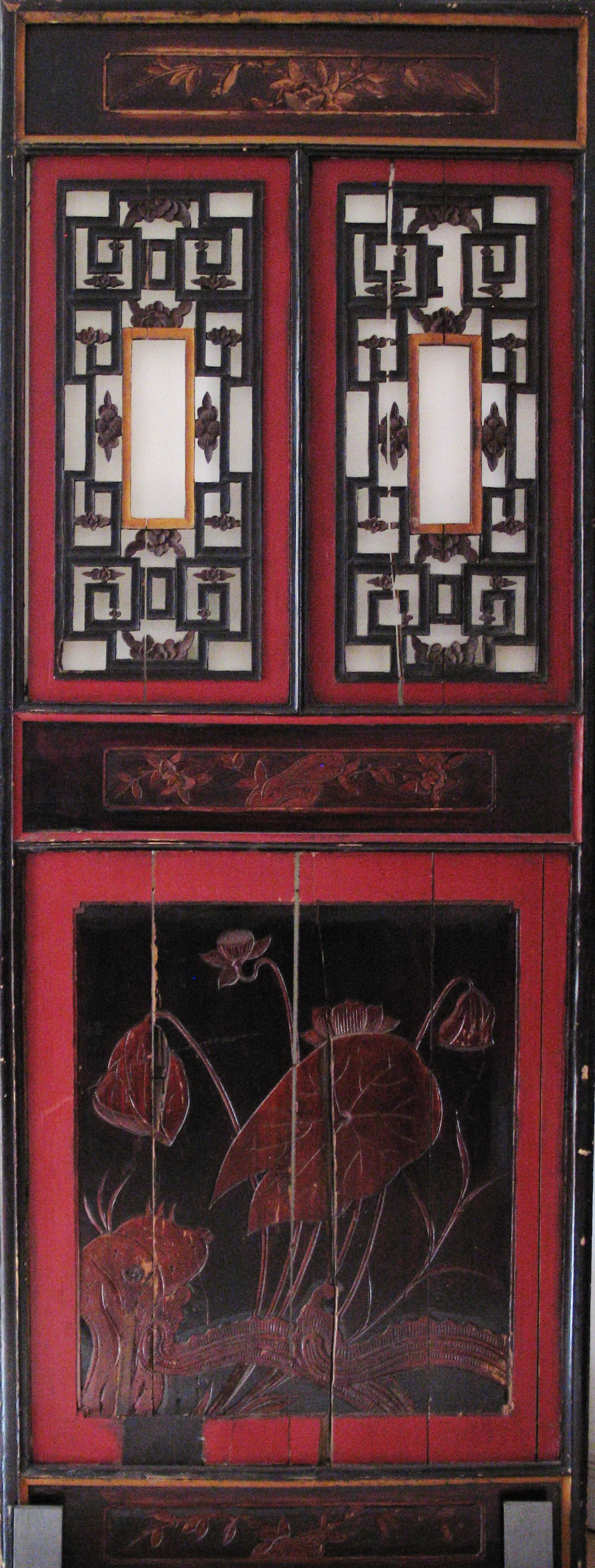 Chinese partition door